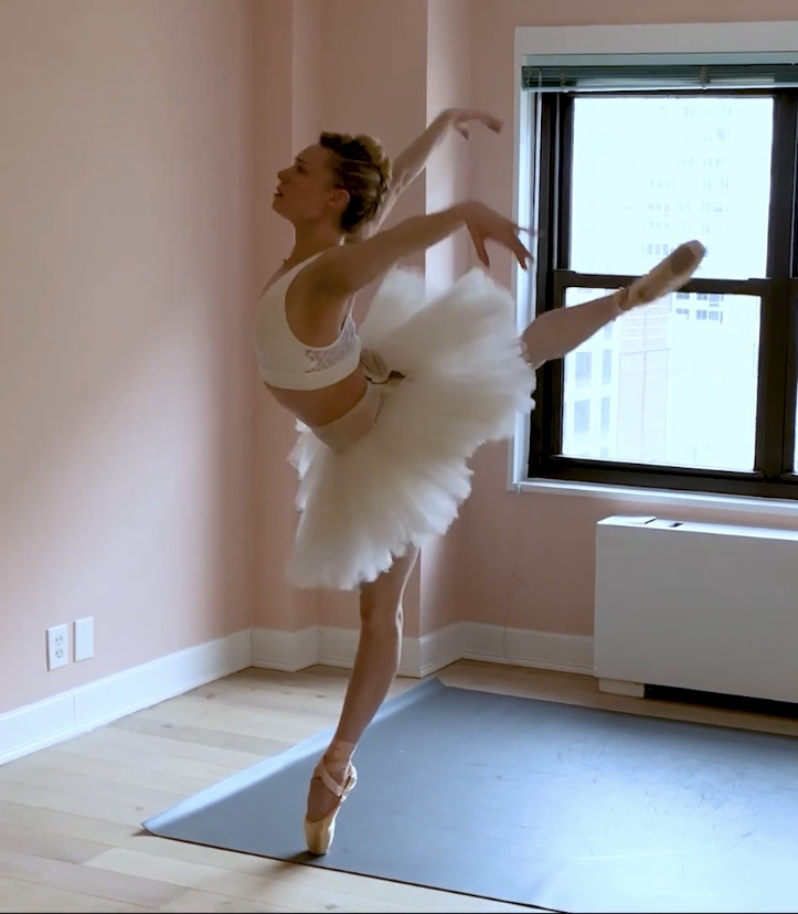 Swans For Relief - Sara Mearns, New York City Ballet, USA Donate: 32 premier ballerinas from 22 dance companies in 14 countries perform Le Cygne (The Swan) variation sequentially in support of Swans for Relief. Organized by Misty Copeland and Joseph Phillips, 100% of the funds raised will be distributed to each dancer’s company’s COVID-19 relief fund, or other arts/dance-based relief fund in the event that a company is not set up to receive donations. To donate please visit, Ballet companies are largely dependent on revenue from performances to pay their dancers and fund their operations, but due to the coronavirus pandemic, all performances have been halted. Consequently, many dancers are unable to depend on paychecks and are facing the hardship of paying rent and/or buying food and other necessities. Le Cygne (The Swan) with music by Camille Saint-Saëns, performed by cellist Wade Davis (USA), with choreography by Michel Fokine by kind permission of the Fokine Estate-Archive.